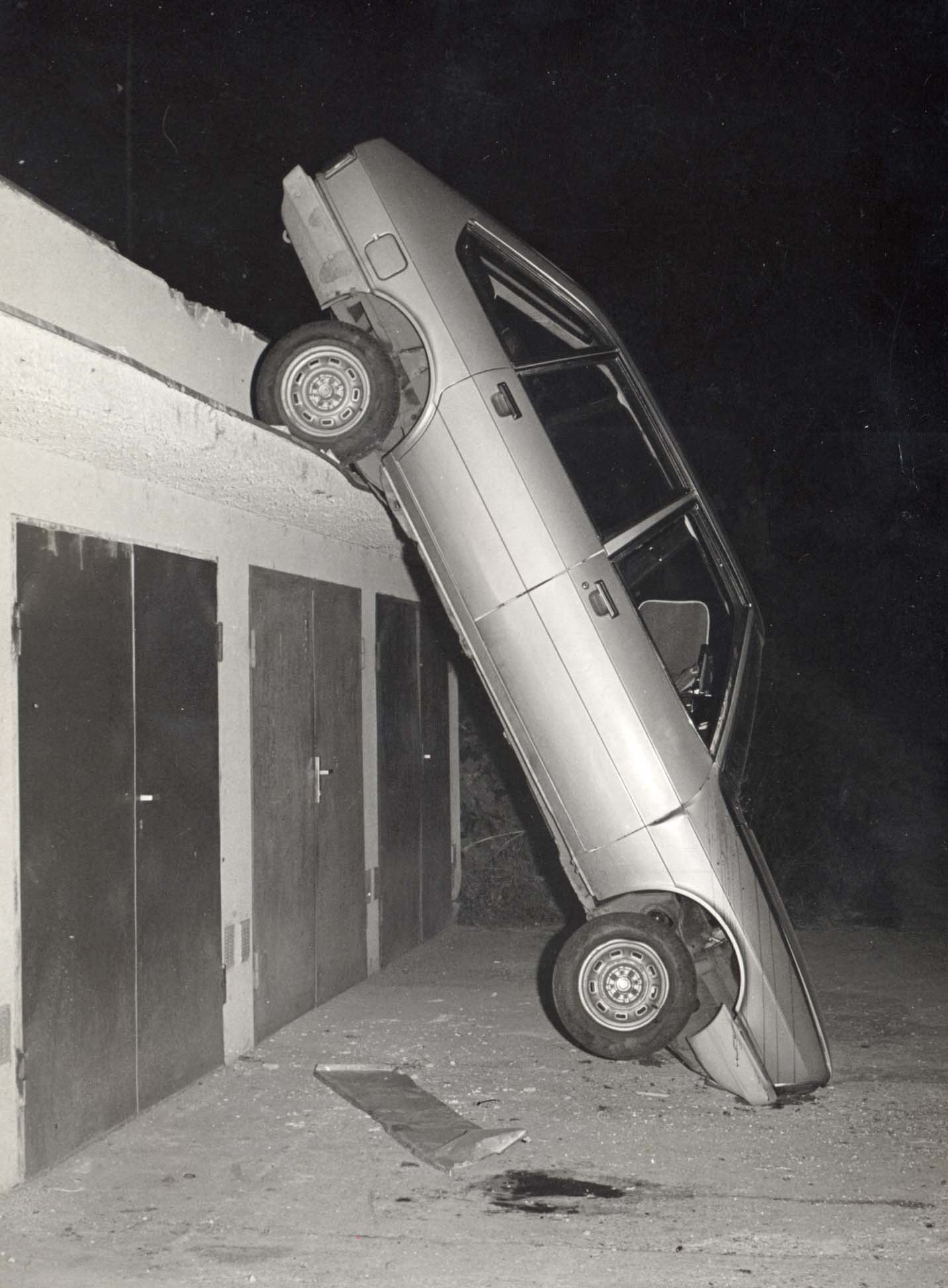 Accident in Uherský Brod (Simca 1307/1308)